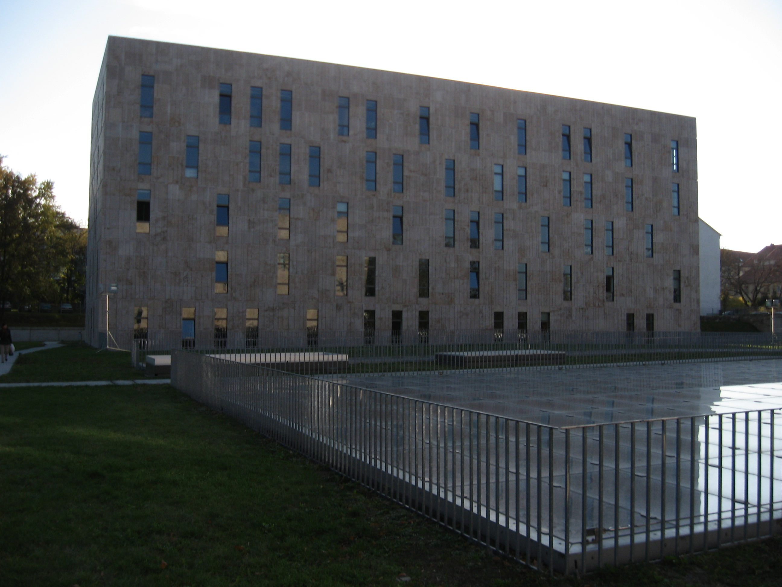 Area of the SLUB